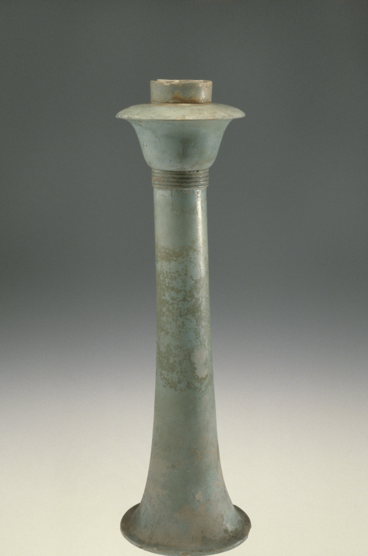 Made in two parts, this elegant lamp stand features a supporting column resembling the tapering stalk of a papyrus plant, terminating in a papyrus umbel, or flower cluster. The cap supported a bronze or ceramic bowl containing oil. The wick was made of twisted linen, and salt was added to the oil to prevent it from smoking.